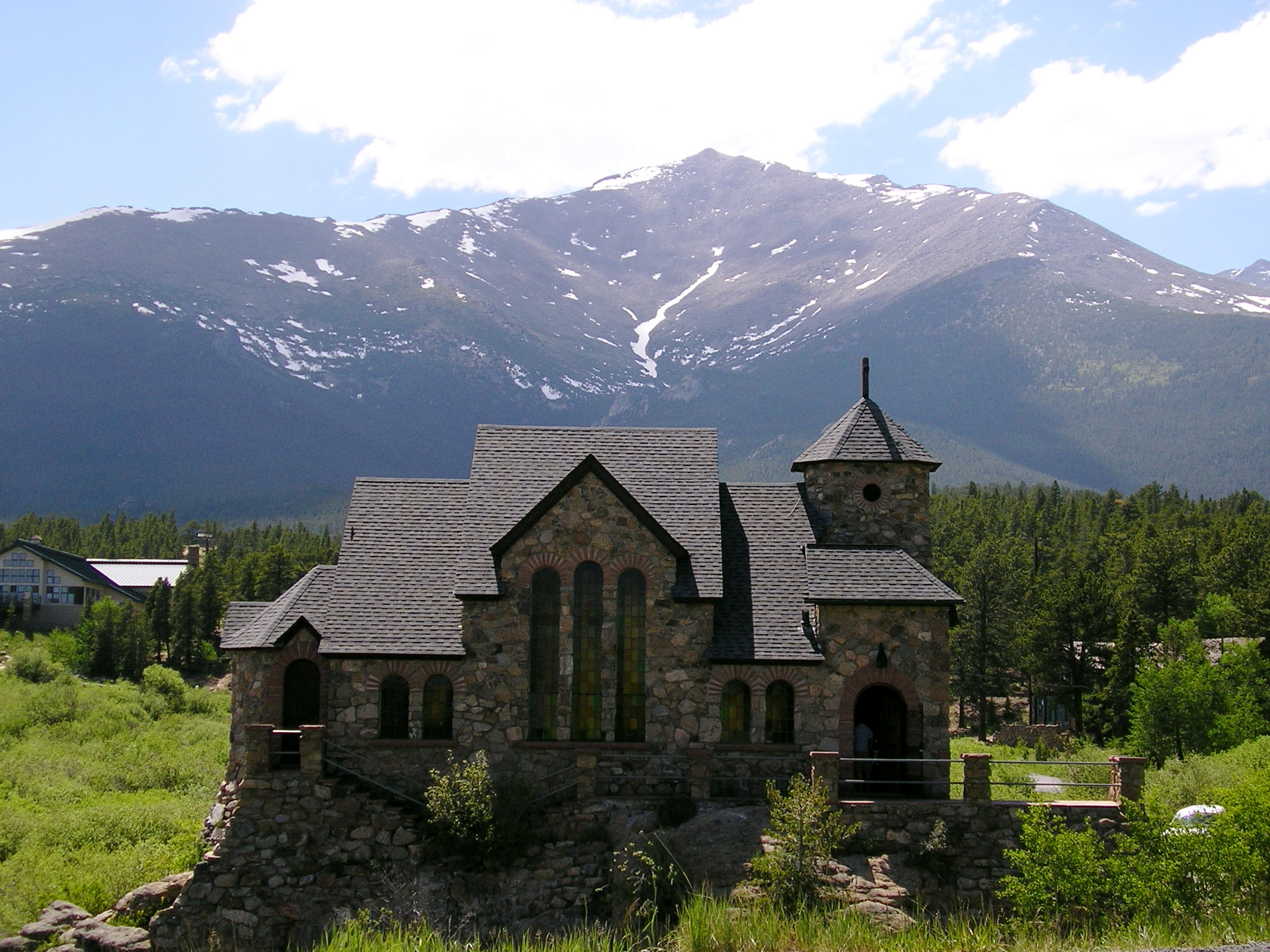 The Chapel on the Rock (officially, Saint Catherine of Siena Chapel) in Boulder County near Allenspark, Colorado. The chapel is part of the Camp Saint Malo Catholic Retreat, Conference, & Spiritual Center of the Catholic Archdiocese of Denver. The picturesque chapel was spared in a devastating 2011 fire which consumed a majority of the retreat center buildings. The retreat center remains closed as of 2014. Photograph taken by L. Chang.